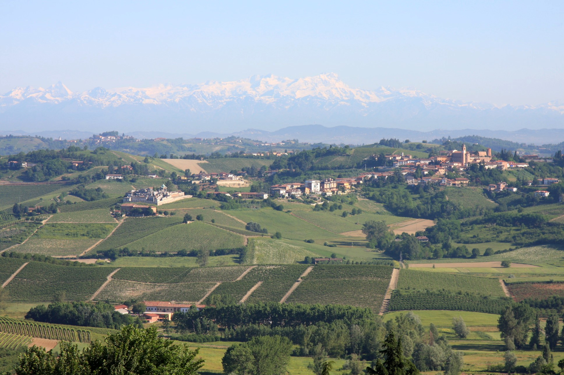 Matterhorn, Monte Rosa, and Castelnuovo Calcea in Piedmont's Wine Region